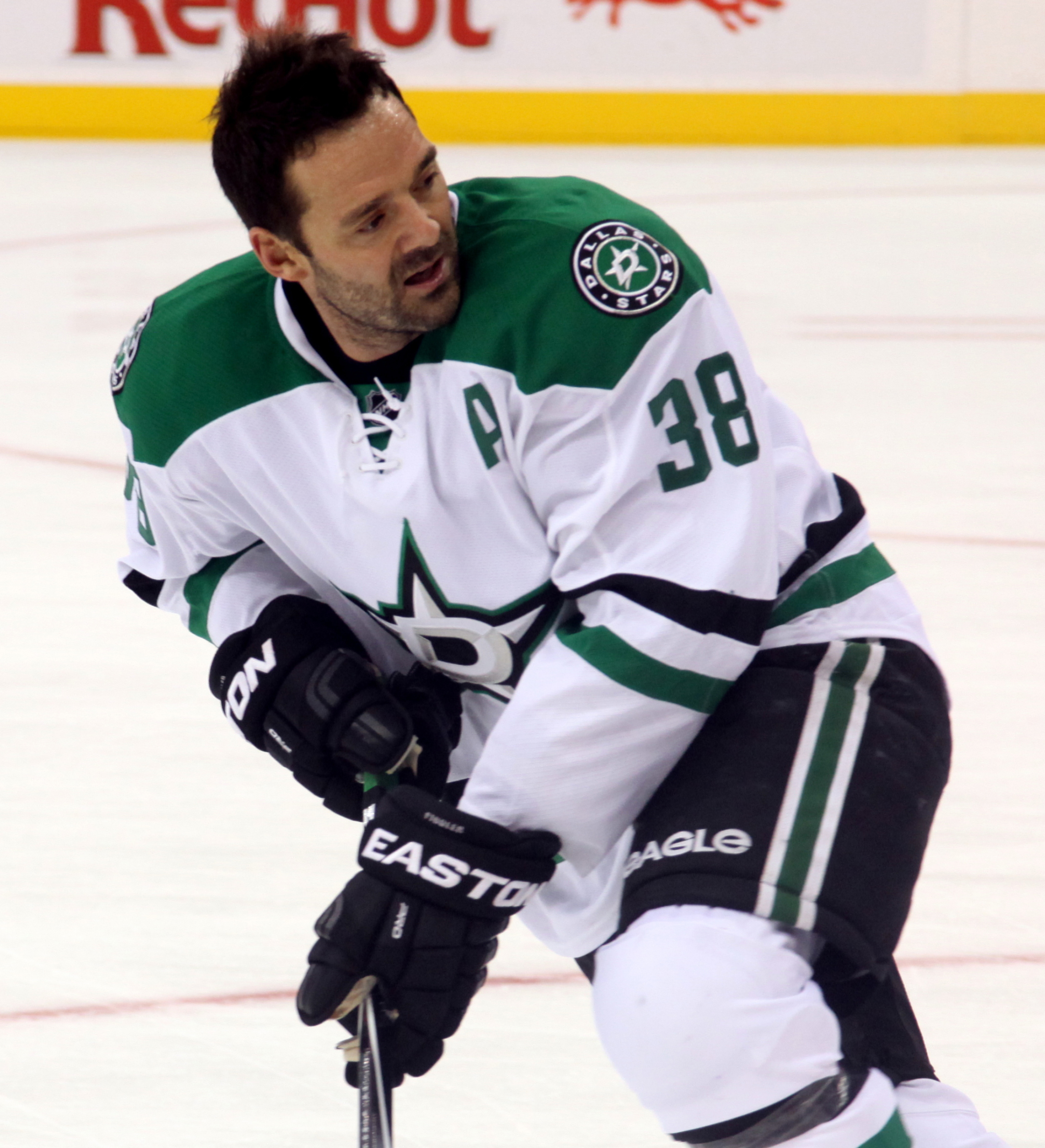 Fiddler in October 2014.